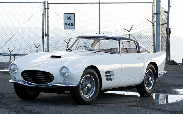 By Steven Jones Taken with a Canon Rebel XT, 70-200mm f/4L, and 1.4x extender on Mount Diablo, California. Probably a 1955 Ferrari 375 MM.